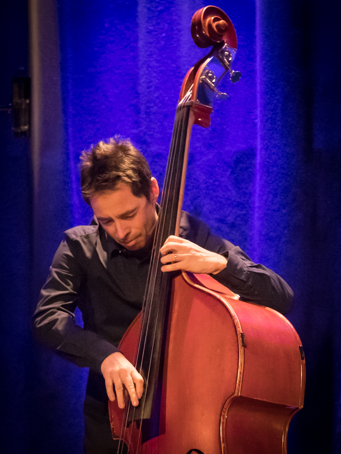 Diego Imbert performs with Fiona Monbet at Cosmopolite. The concert was part of Djangofestivalen 2017 and took place on 20. January 2017 in Oslo. This was the sixth visit of Monbet to Djangofestivalen. Lineup: Fiona Monbet (fiddle) Antoine Boyer (guitar) Pierre Cussac (accordion) Diego Imbert (double bass)